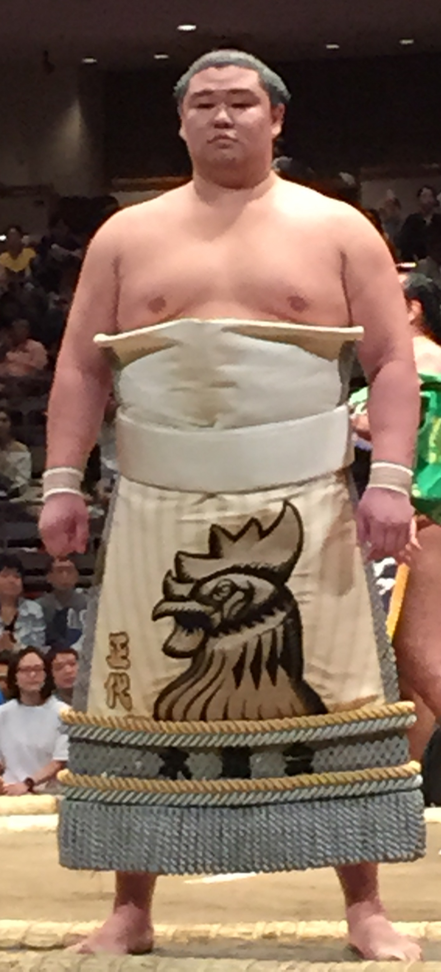 Taken at an official tournament in 2015